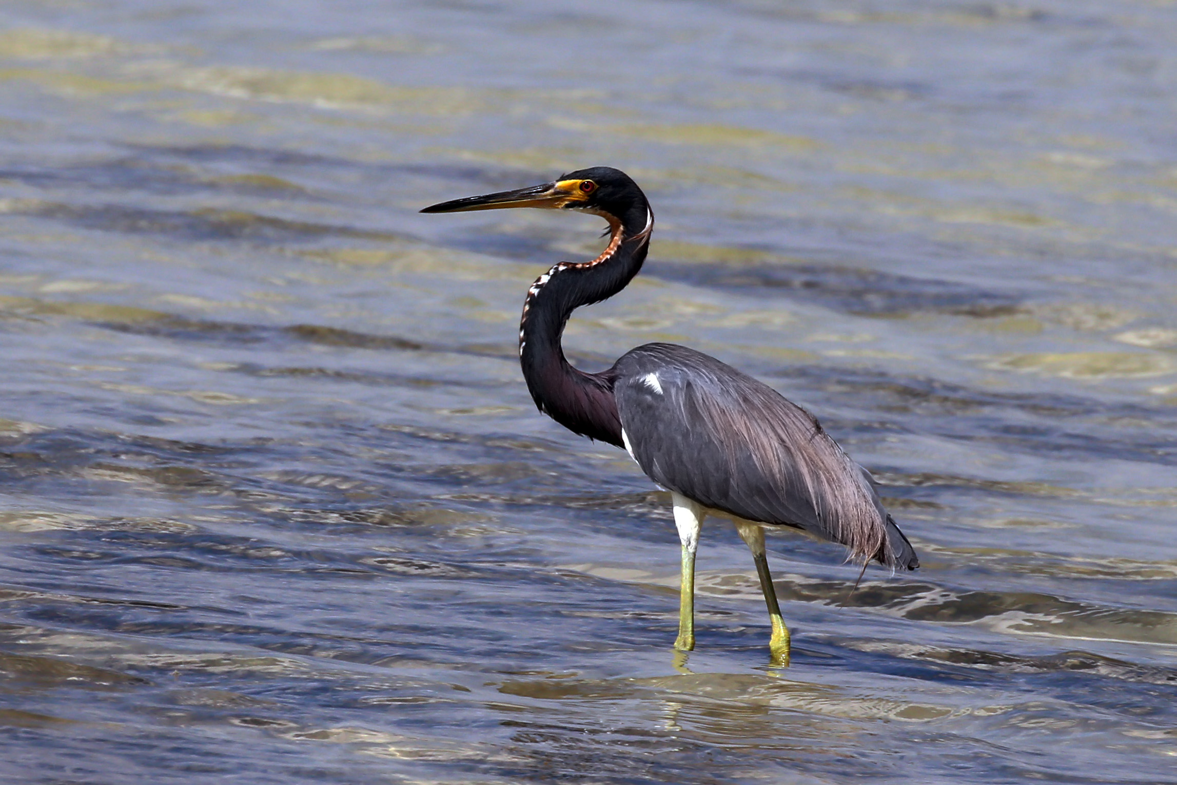 Tricolored heron (Egretta tricolor), Cuba